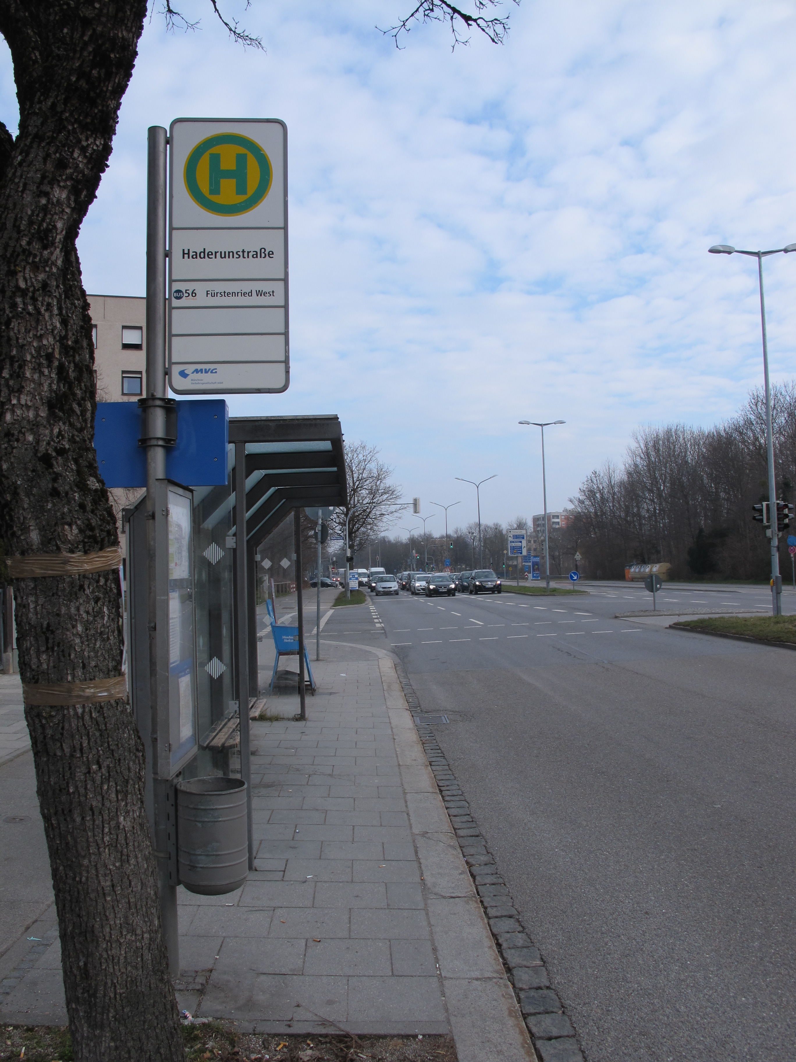 A bus stop (Haderunstraße) of the Line 56 of MVV at the Waldwiesenstraße going in the direction of Fürstenried West in 2017